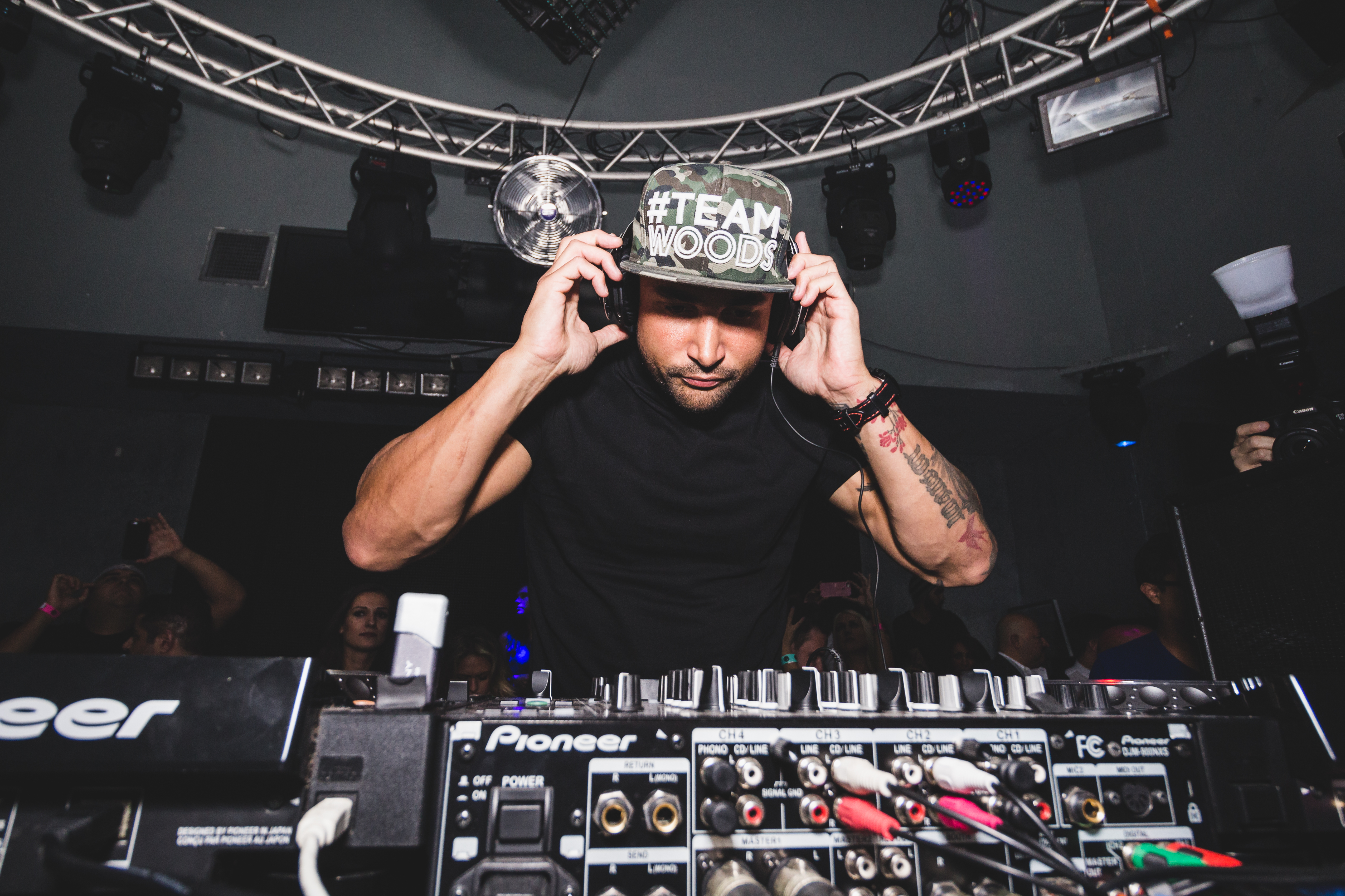 Michael Woods performing at Sutra OC.